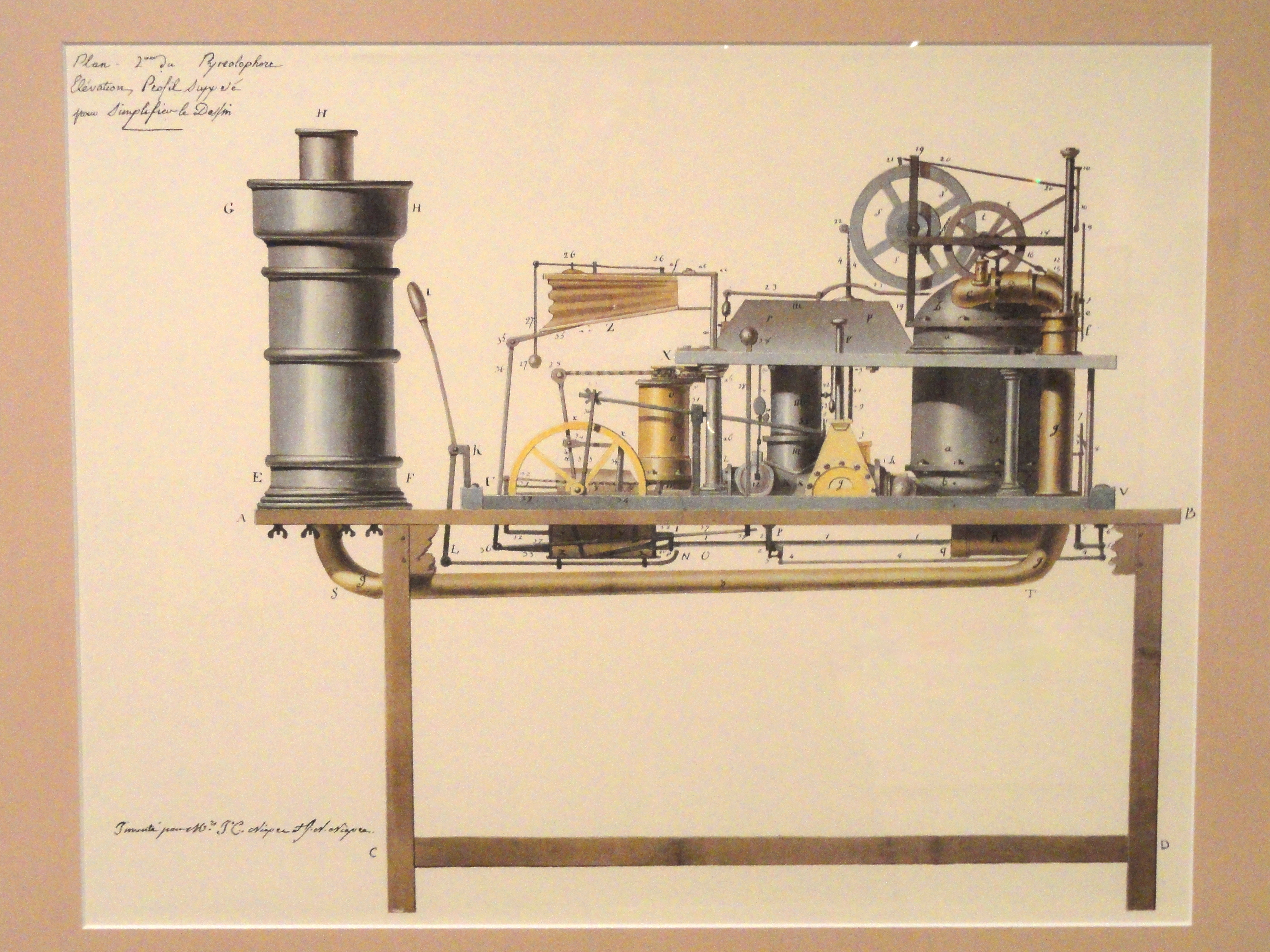 Exhibit in the Musée Nicéphore Niépce, 28 Quai Messageries, Saône-et-Loire, France. There were no restrictions on photography in the museum.